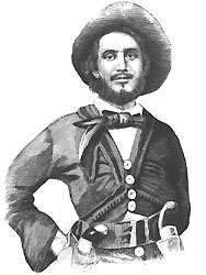 Edward Fitzgerald Beale